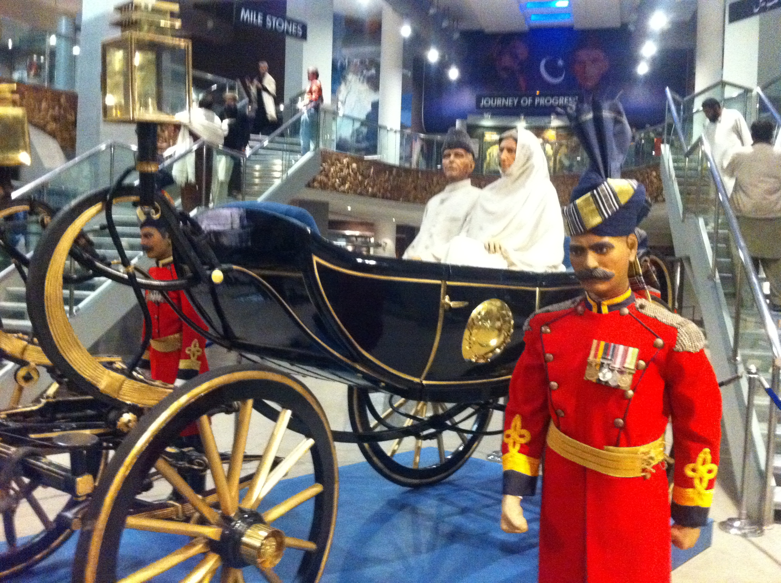 Pakistan Monument This is a photo of a monument in Pakistan identified as the ICT-4